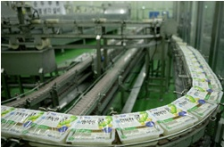 Food Science Ex 2